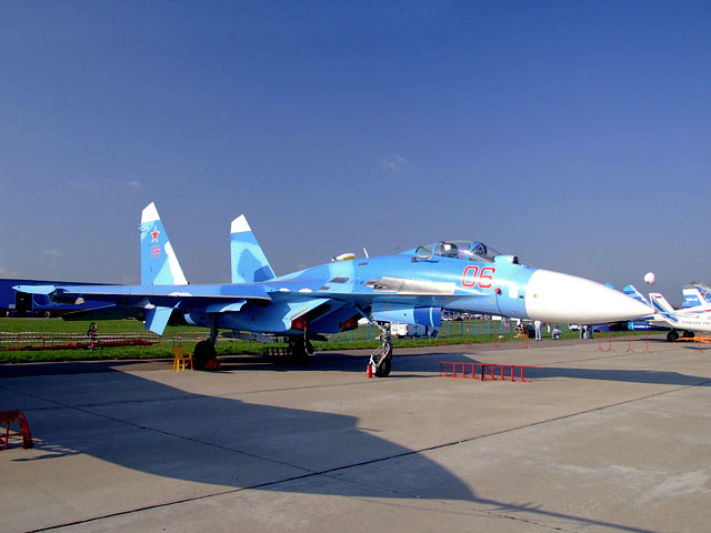 MAKS Airshow-2007. Su-27